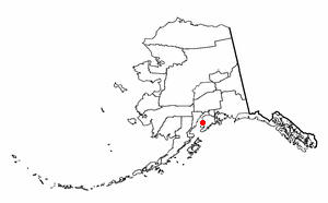 Adapted from Wikipedia's AK borough maps by Seth Ilys.